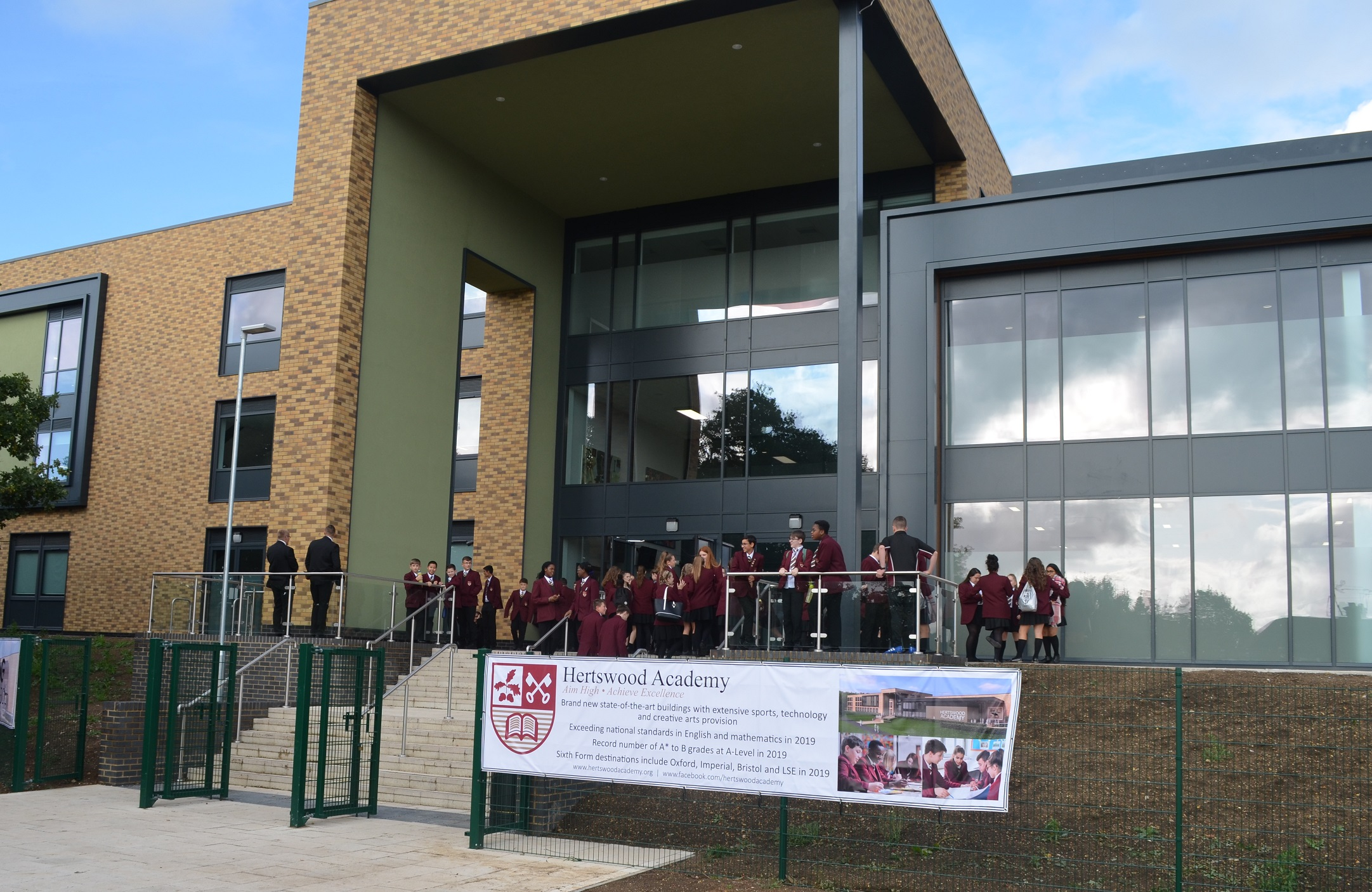 Hertswood Academy front entrance at its 2019 Open Evening